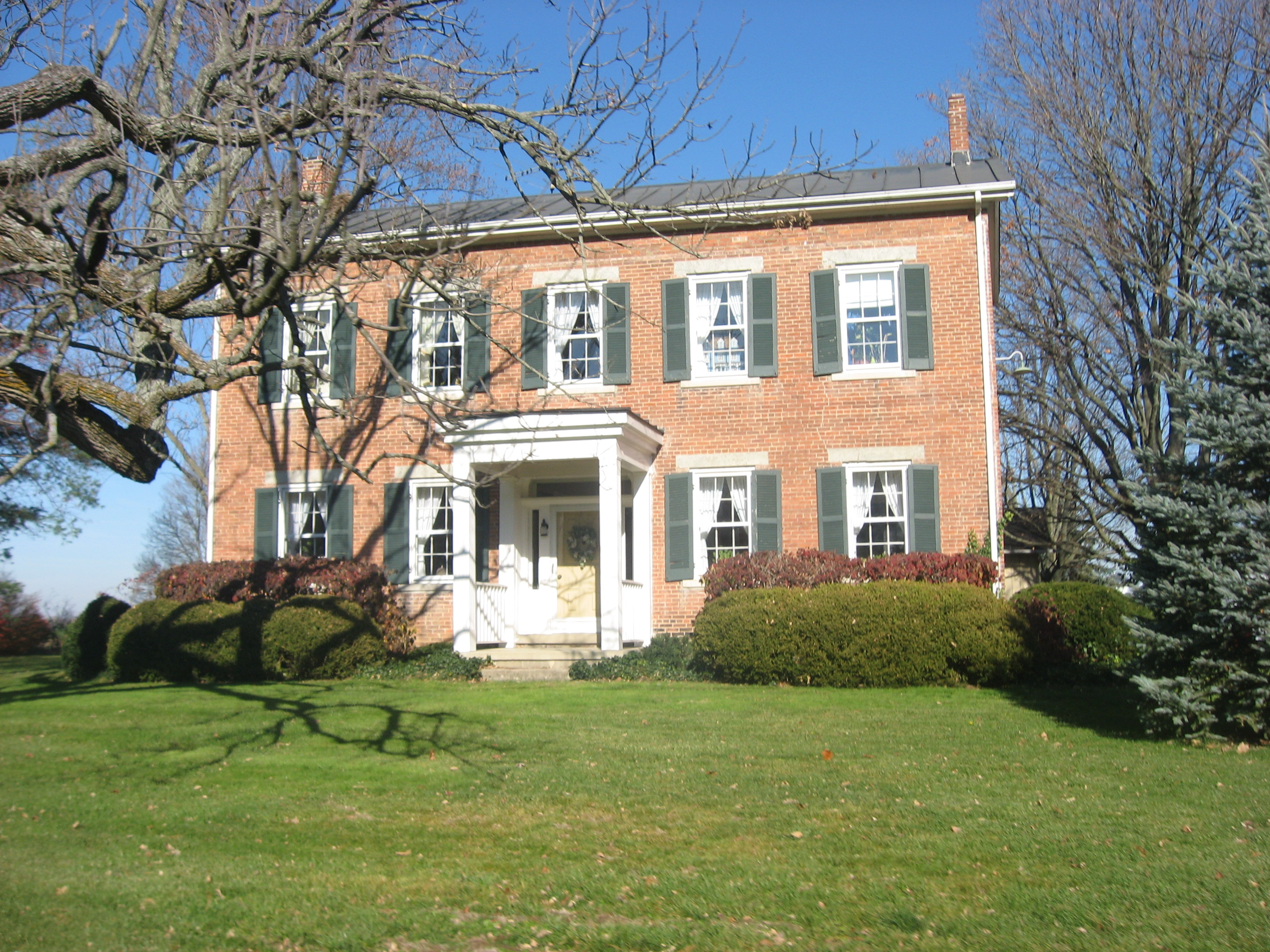 Front of the farmhouse at the Daniel Christman Homestead, located at 2179 U.S. Route 35 northwest of Eaton in Washington Township, Preble County, Ohio, United States. Built in 1856, it is listed (along with the rest of the homestead) on the National Register of Historic Places.